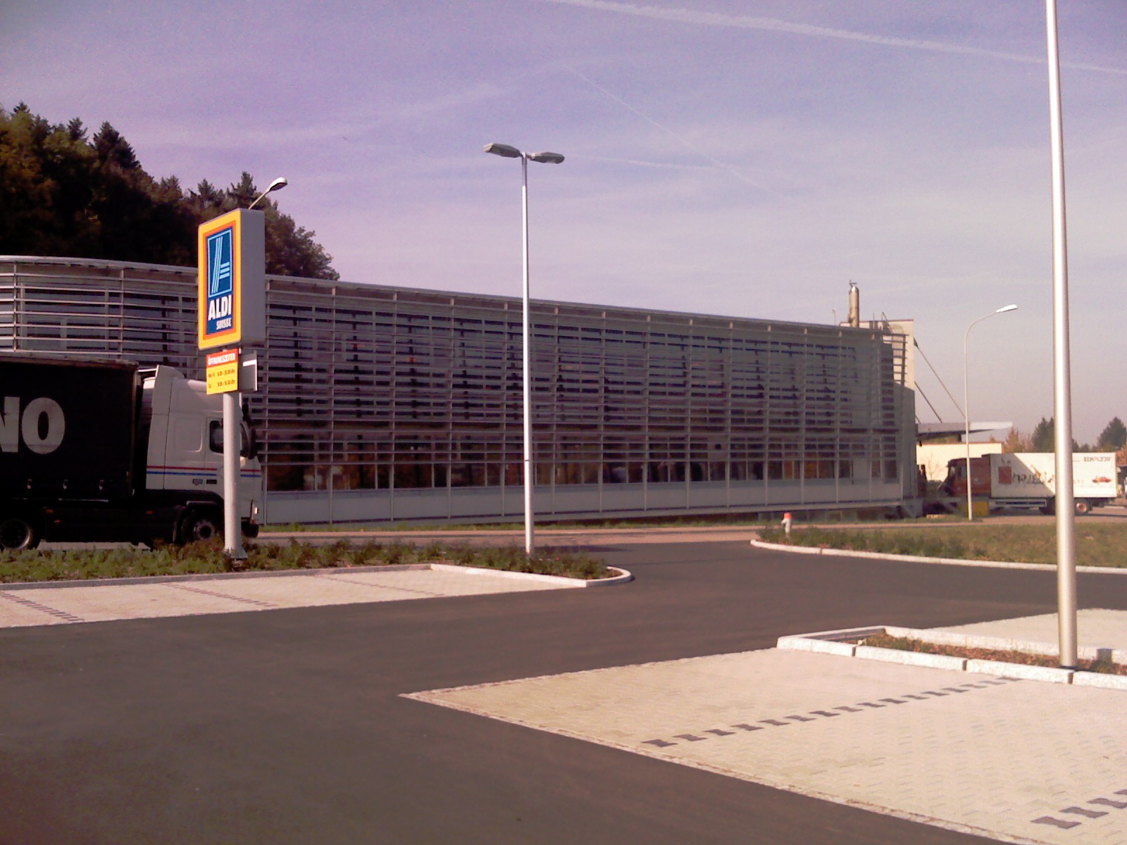 Supermarket of Aldi at Mönchaltorf, canton of Zürich, SwitzerlandEsperanto: Supermerkato de Aldi en Mönchaltorf, Kantono Zuriko, Svislando